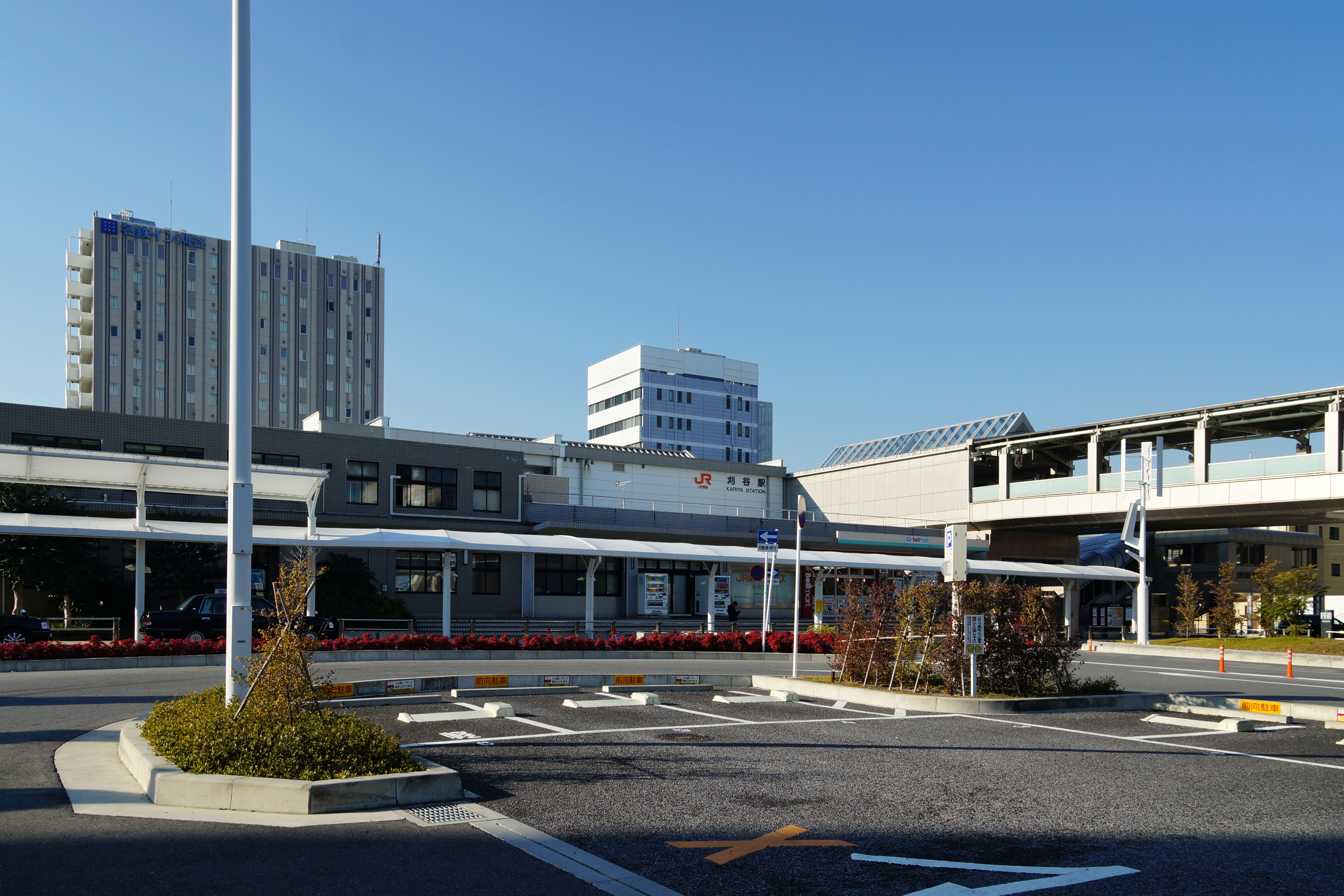 Kariya_Station in Kariya, Aichi prefecture, Japan.